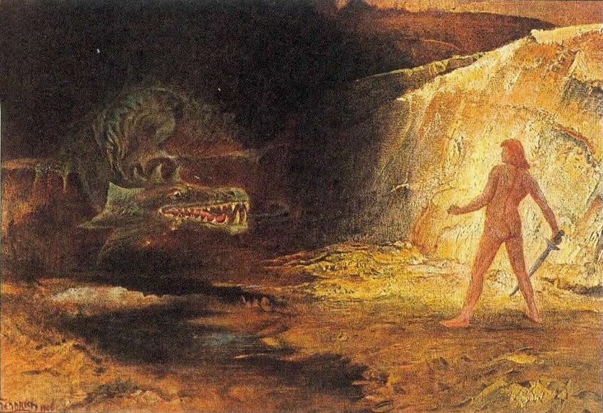 Based on The Ring of the Nibelung, by Richard Wagner (1813-1883).